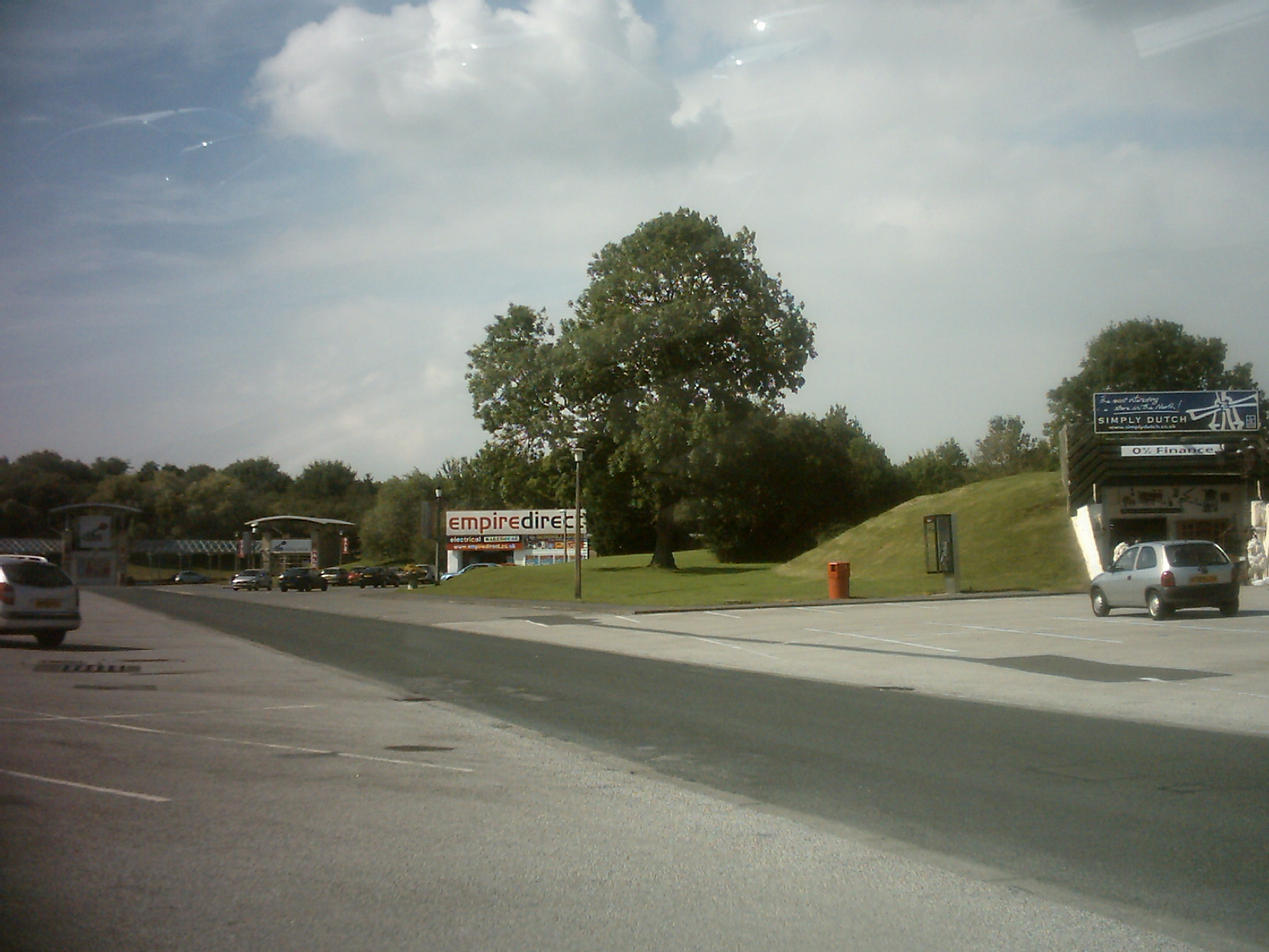 Buywell Retail Park, Thorpe Arch Trading Estate, Wetherby, West Yorkshire